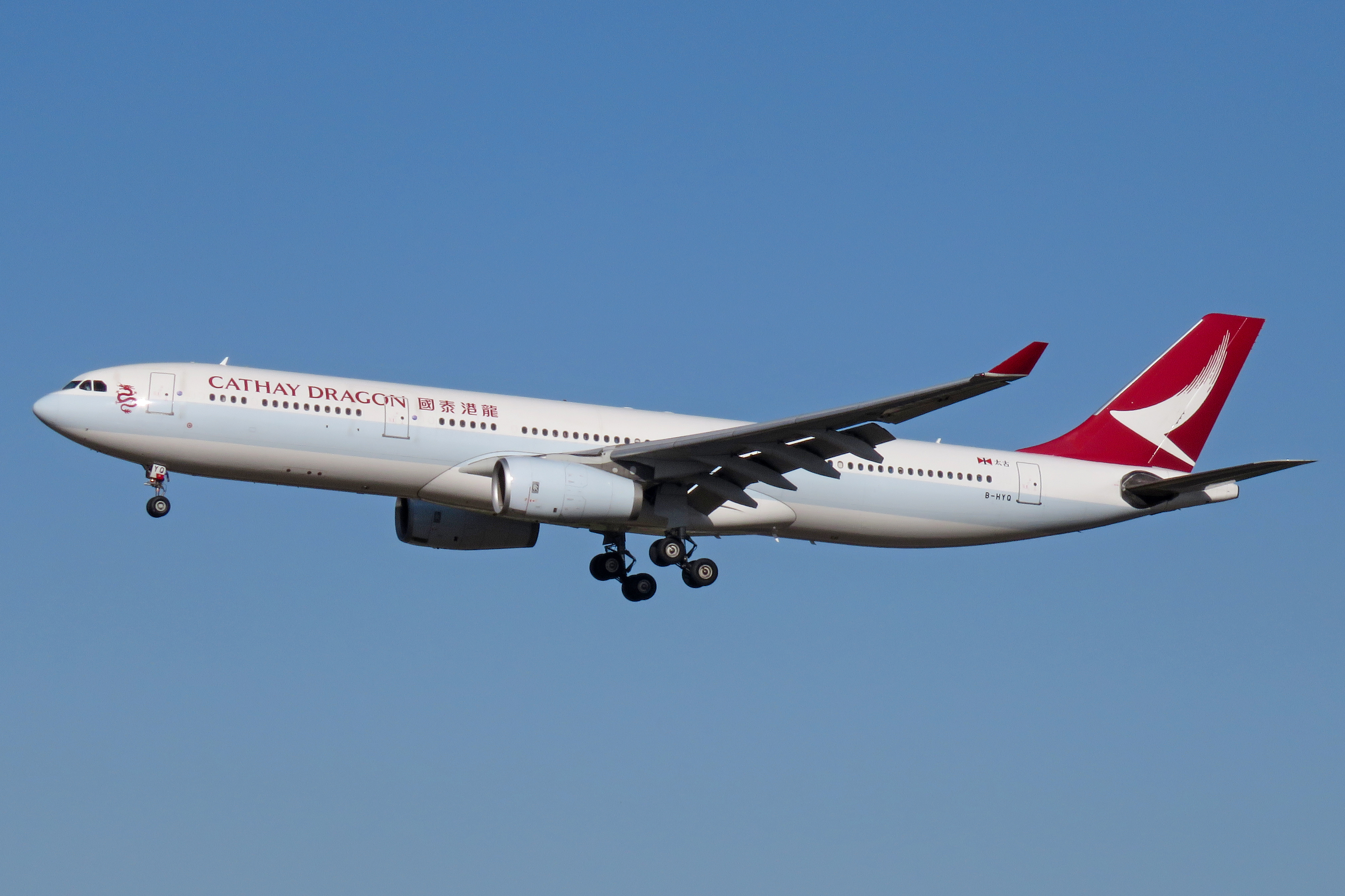 Dragon 992 from Hong Kong. "Yankee Quebec" is the first aircraft with new Cathay Dragon livery.